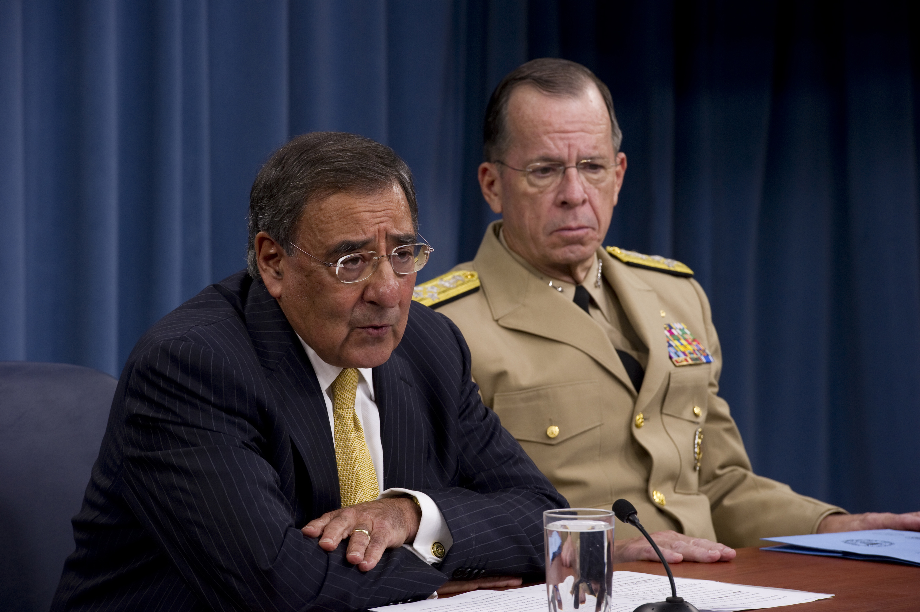 ARLINGTON, Va. (Aug. 4, 2011) Secretary of Defense Leon Panetta and Chairman of the Joint Chiefs of Staff Adm. Mike Mullen address the media during a press availability at the Pentagon. (U.S. Navy photo by Mass Communication Specialist 1st Class Chad J. McNeeley/Released)